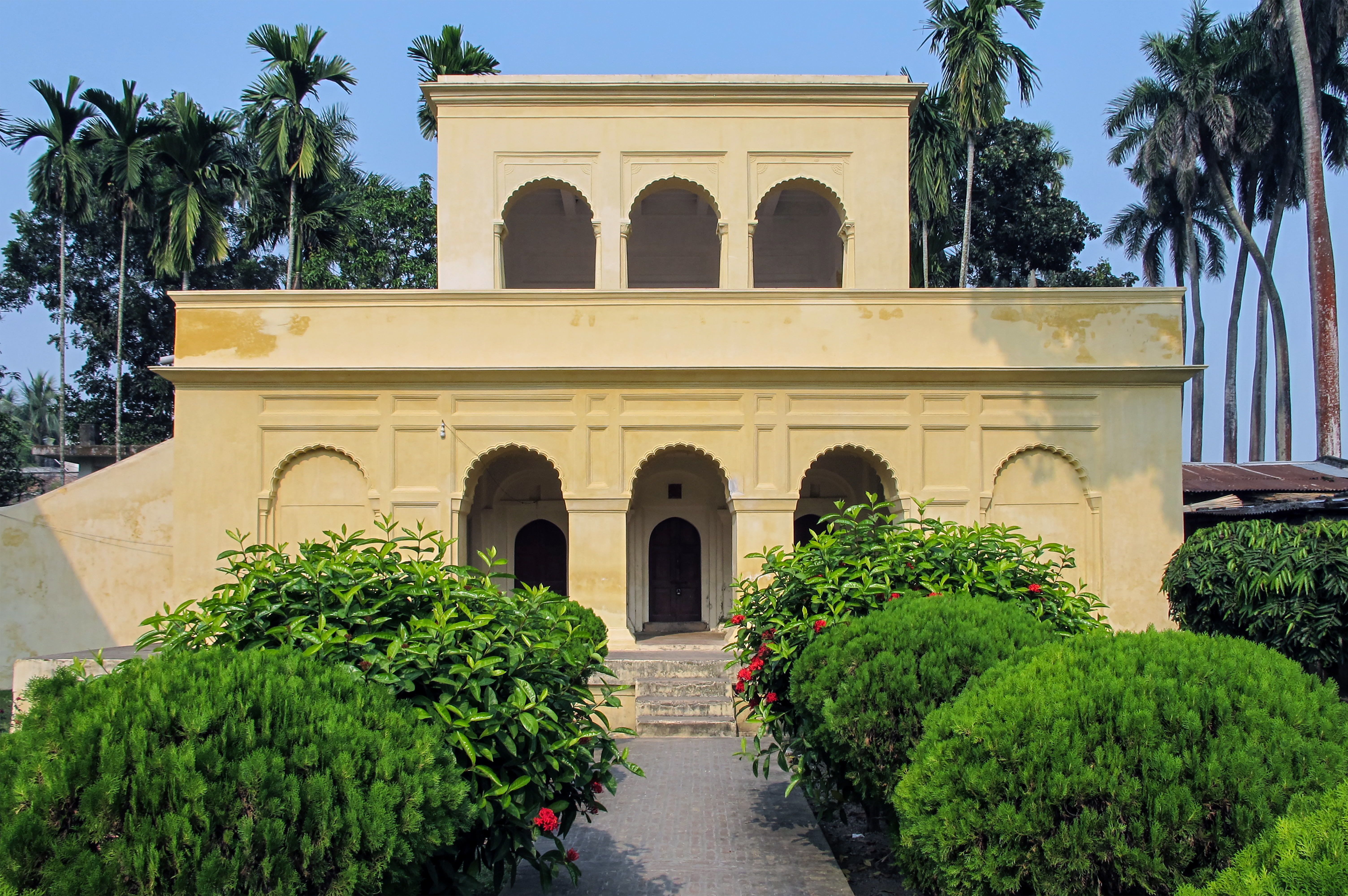 Gopal Temple (west exposure, front), Puthia